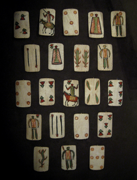 Apache playing cards (either Chiricahua or Western), ca. 1875-1885, rawhide, Arizona, collection of the National Museum of the American Indian